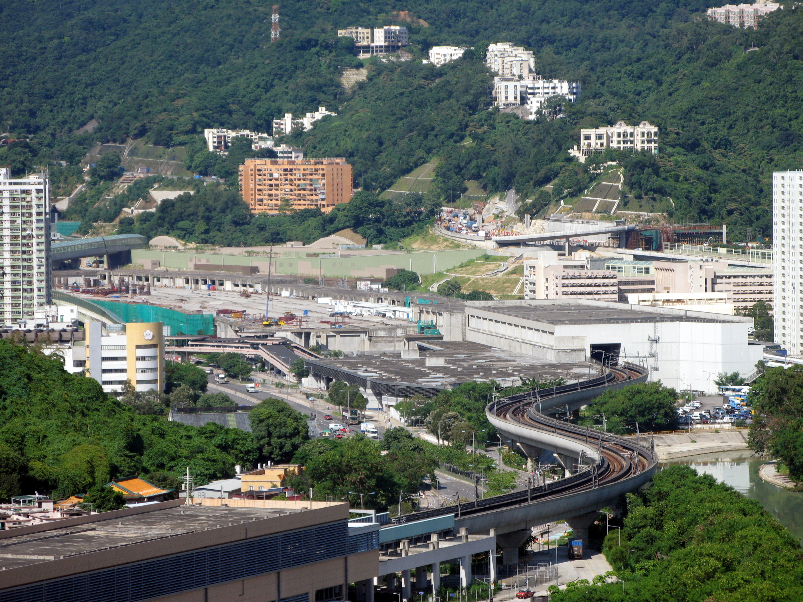 Tai Wai Station & Tai Wai Maintenance Centre Site